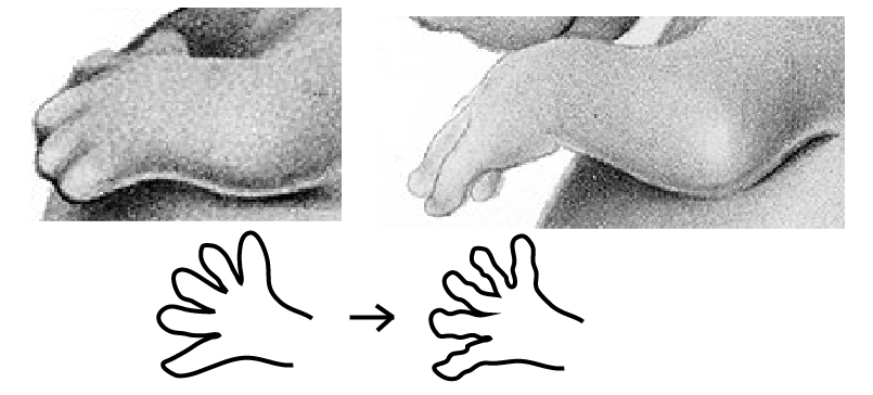 Standard Event System character depiction